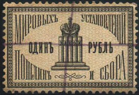 Russia. Judicial stamp